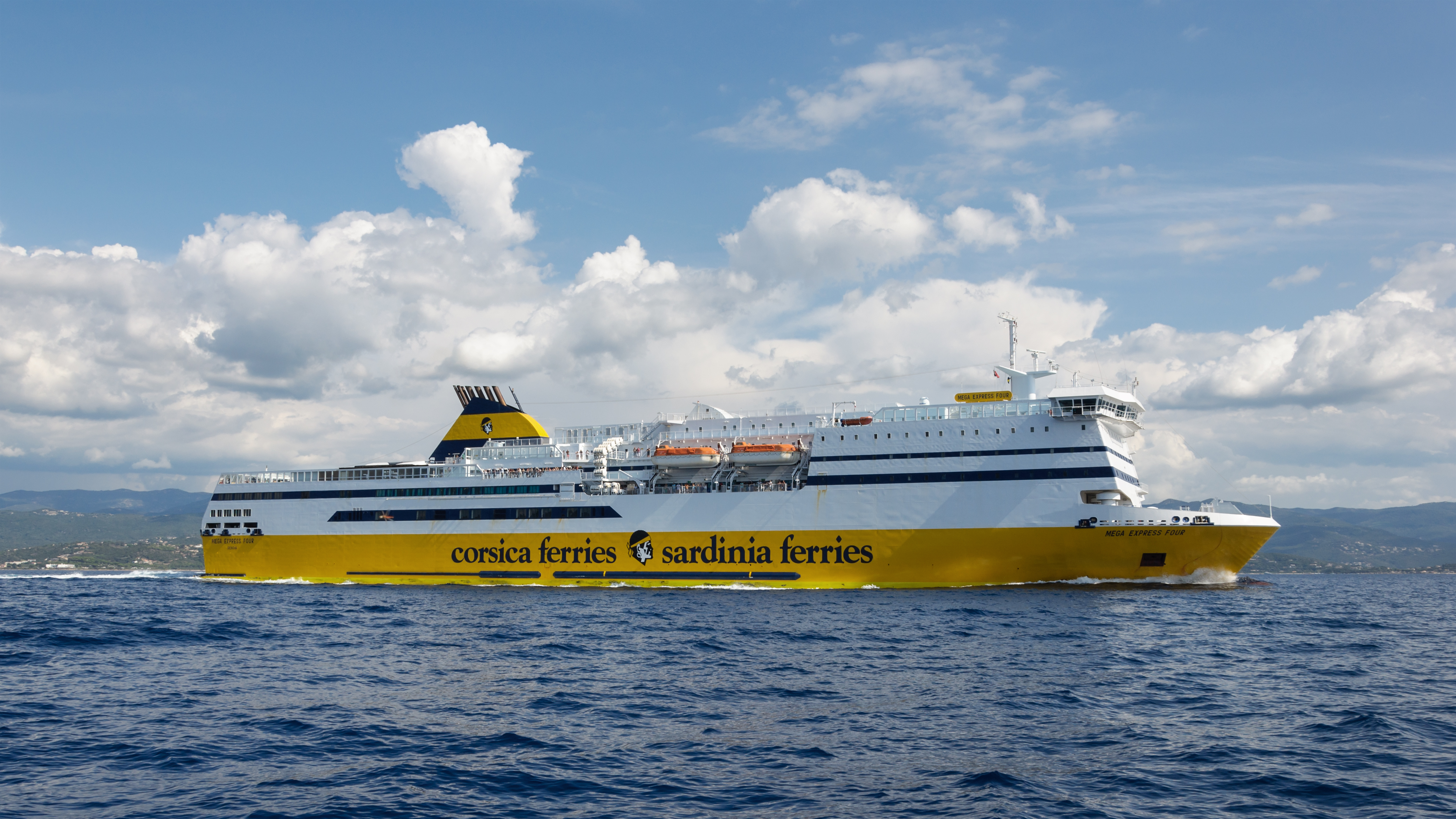 The Corsica Ferries fast ferry MS Mega Express Four at Ajaccio, Southern Corsica, France